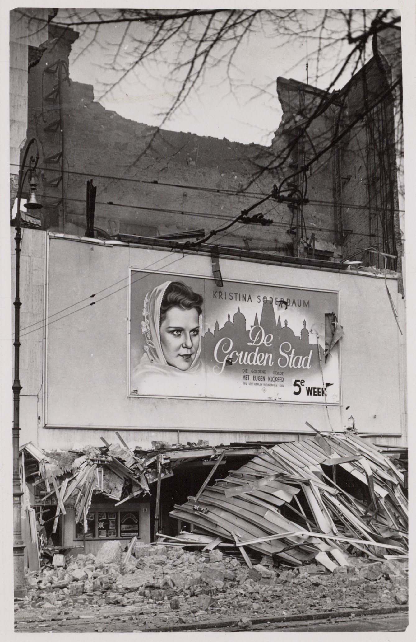 010003029656, 17-06-2005, 11:21, 8C, 4622x2948 (1+2681), 100%, mzadm, 1/120 s, R29.1, G10.1, B17.2